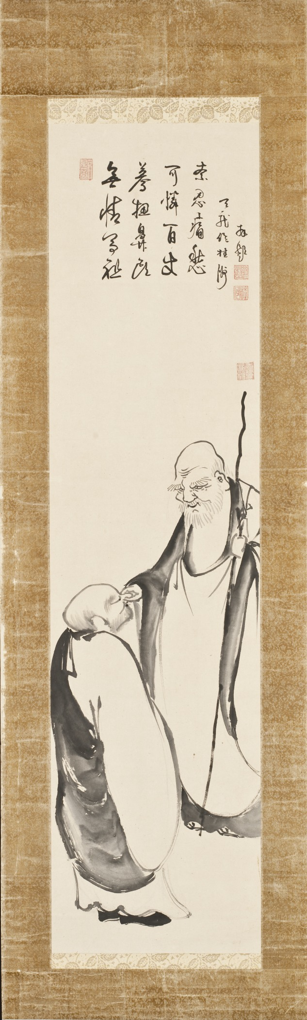 circa 1760-1789 Paintings; scrolls Hanging scroll; ink on paper Image: 35 3/4 x 10 7/8 in. (90.81 x 27.62 cm); Mount: 70 1/2 x 15 1/2 in. (179.07 x 39.37 cm) Gift of Leslie Prince Salzman (M.2006.198.3) Japanese Art